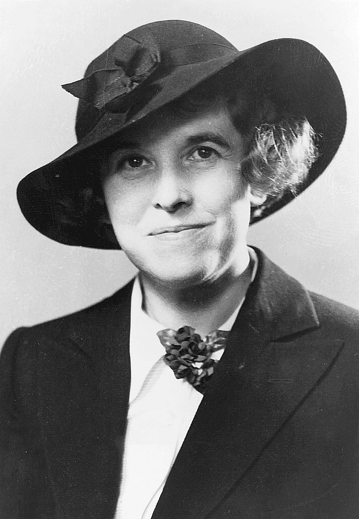 American theatrical producer and director, playwright, and author Hallie Flanagan.